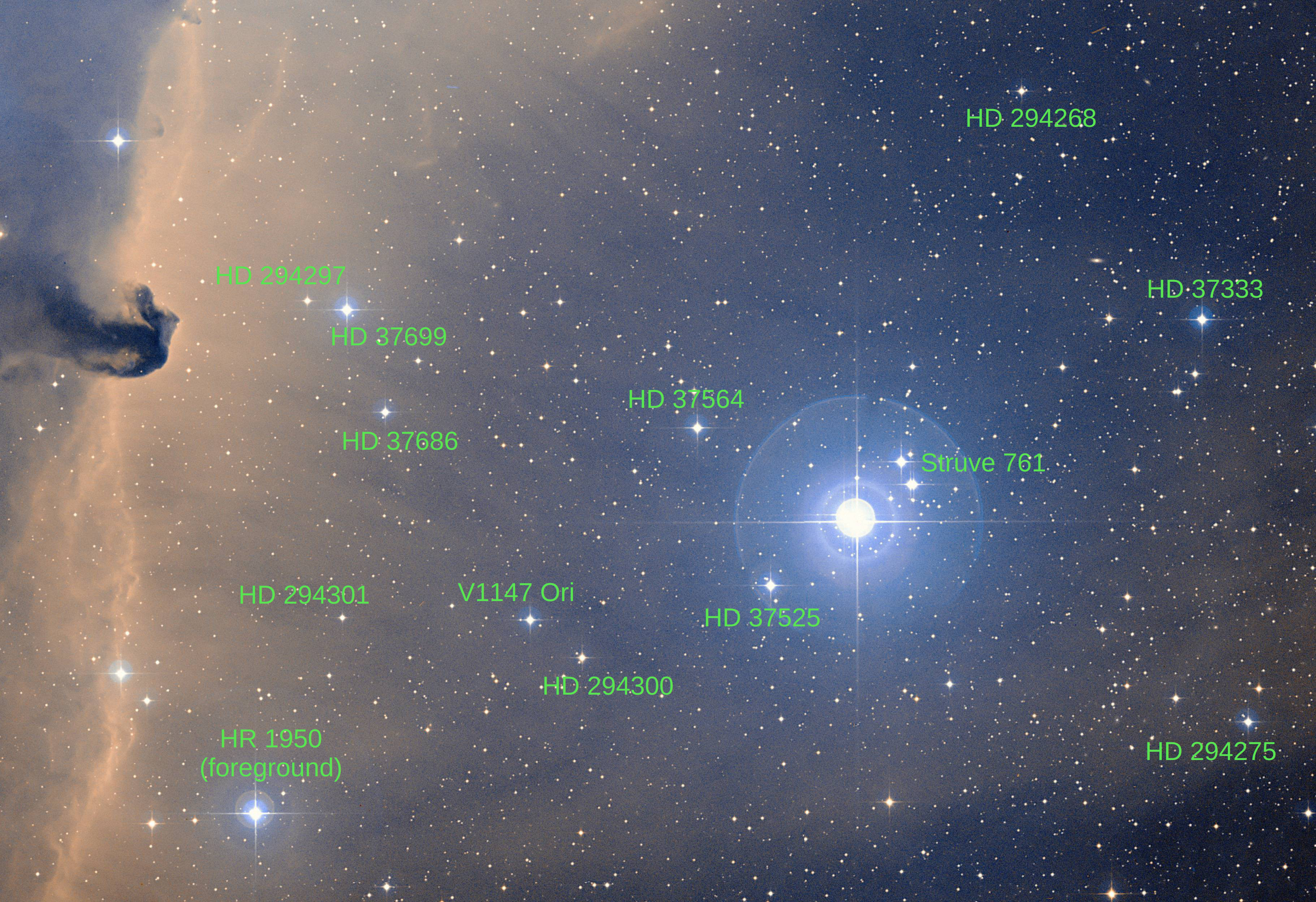 The major stars of the Sigma Orionis cluster are marked on a Digitized Sky Survey image.